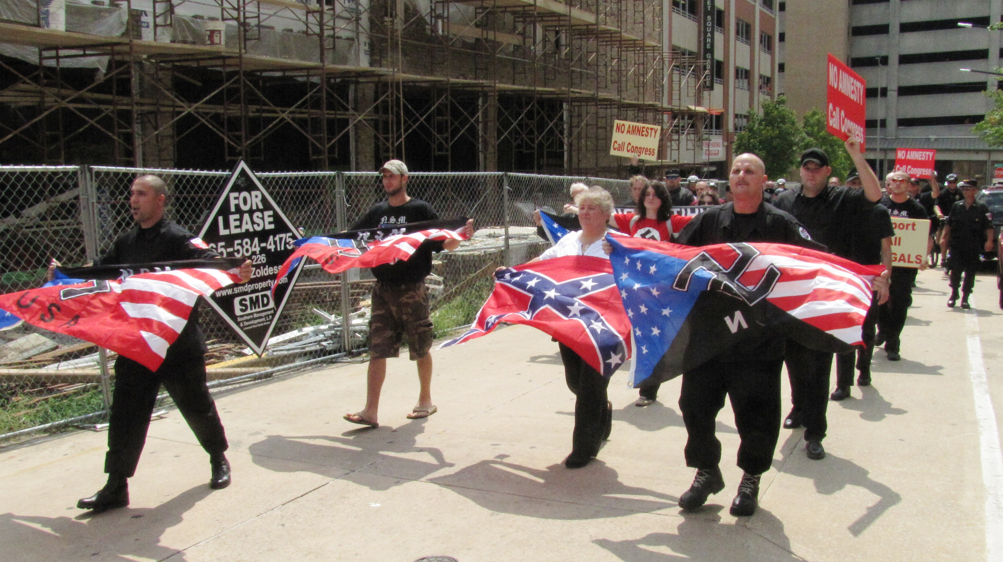 Members of the Detroit-based National Socialist Movement marching at Market Square in Knoxville, Tennessee, USA. The group was protesting illegal immigration. They are displaying the Confederate flag and the flag seen in File:Drapeaux National Socialist Movement.svg